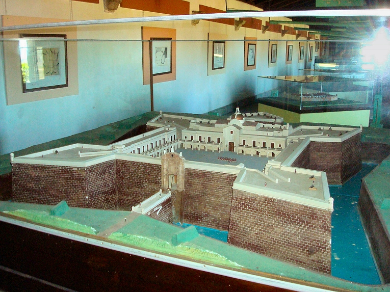 Model of the Fortress of Montevideo in the military museum of Fortaleza Santa Tereza, Rocha Department, Uruguay.